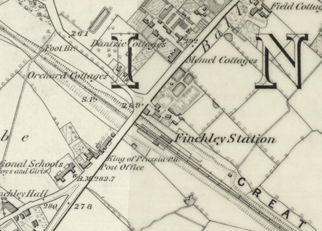 Finchley Central station in north London on an 1873 Ordnance Survey map.